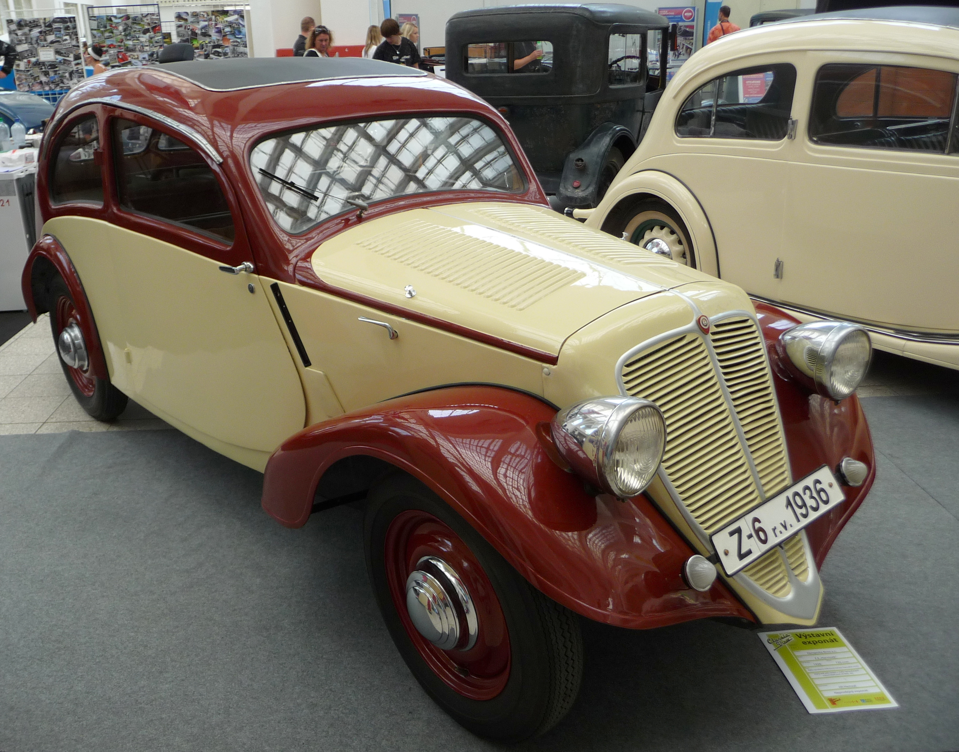 Zbrojovka Z 6 Hurvínek, rok výroby 1936, Classic Show Brno 2011, The Brno Exhibition Grounds -10 -5 -3 -2 ◄ ► +2 +3 +5 +10